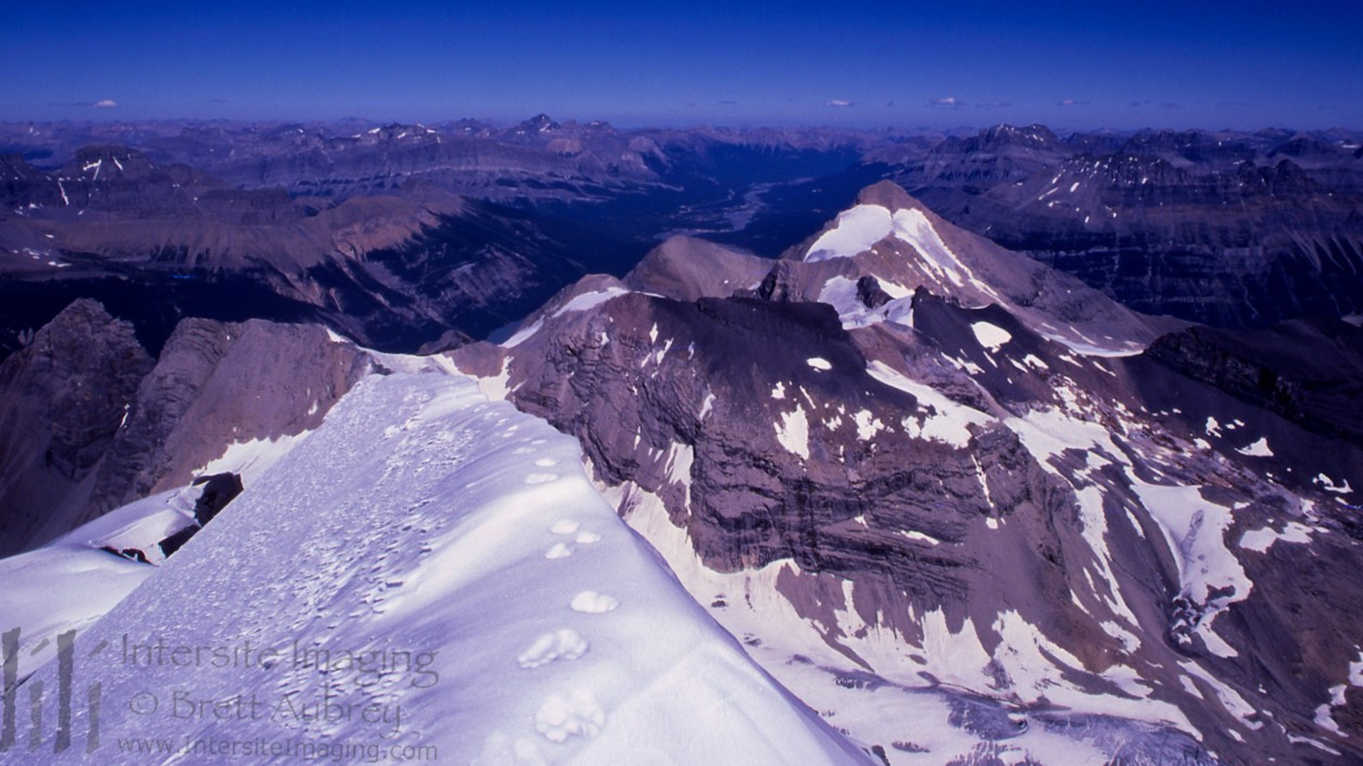 On the Mt. Forbes summit ridge at 3,612 m (11,850 ft); wolverine tracks, identified as such by Parks Canada staff, indicates the degree of difficulty managed by wolverines. For a possible view of this route, see Mistaya Mtn. and a look at this side of the mountain.